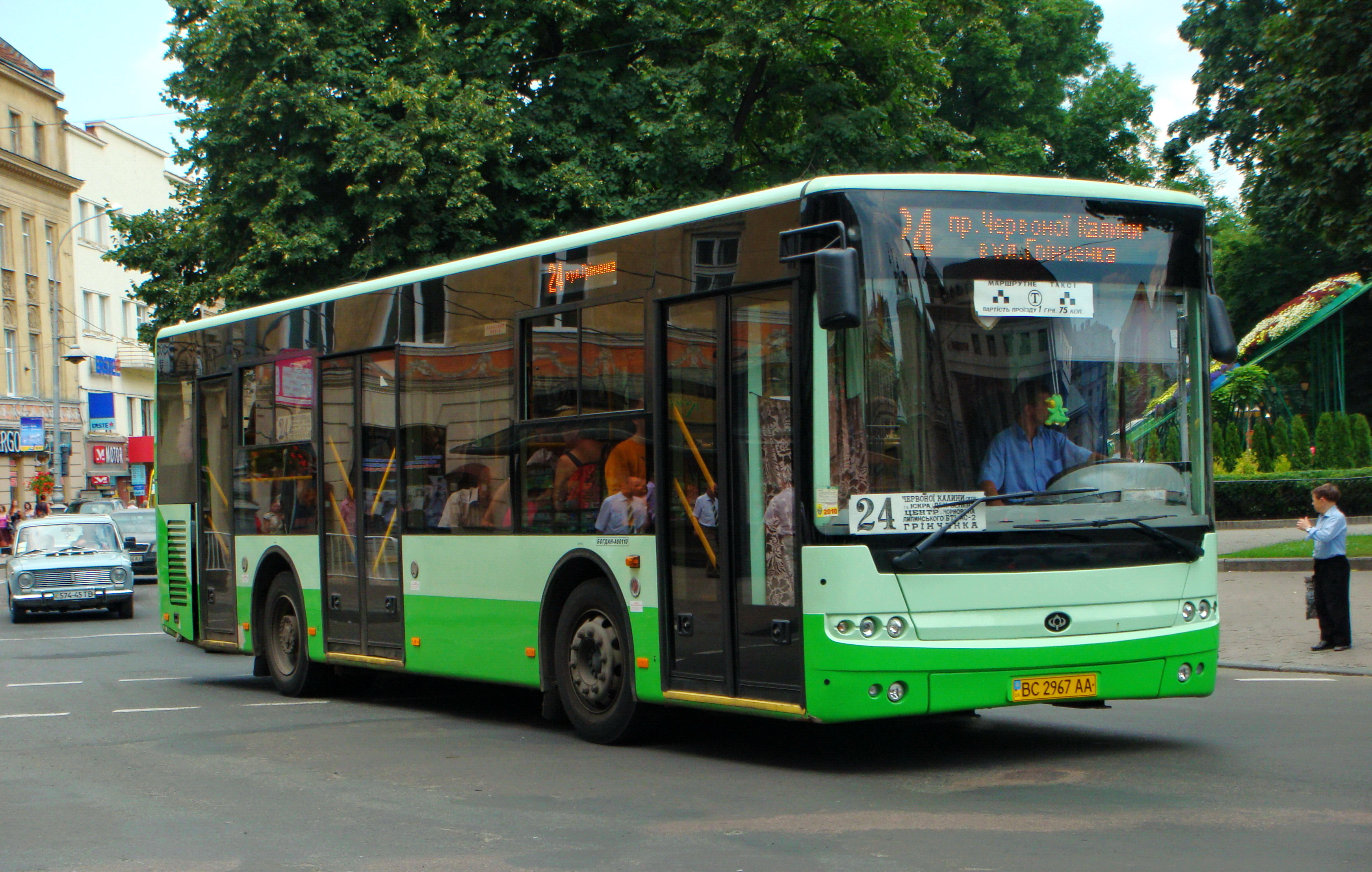 Bogdan A601.10 in Lviv